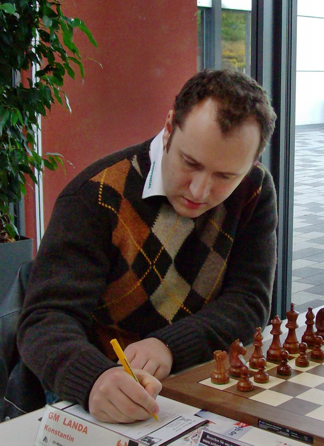 Konstantin Landa, chess grandmaster